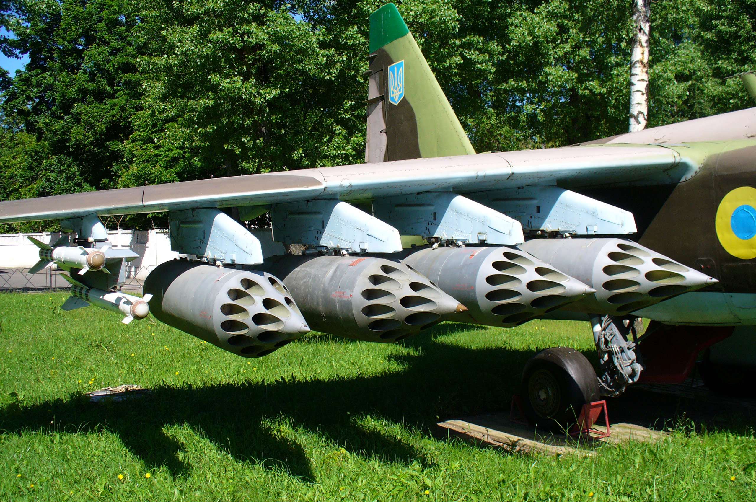 The Sukhoi Su-25 is a Soviet Union jet aircraft. NATO reporting name "Frogfoot". Ukrainian Air Force Museum in Vinnitsa.